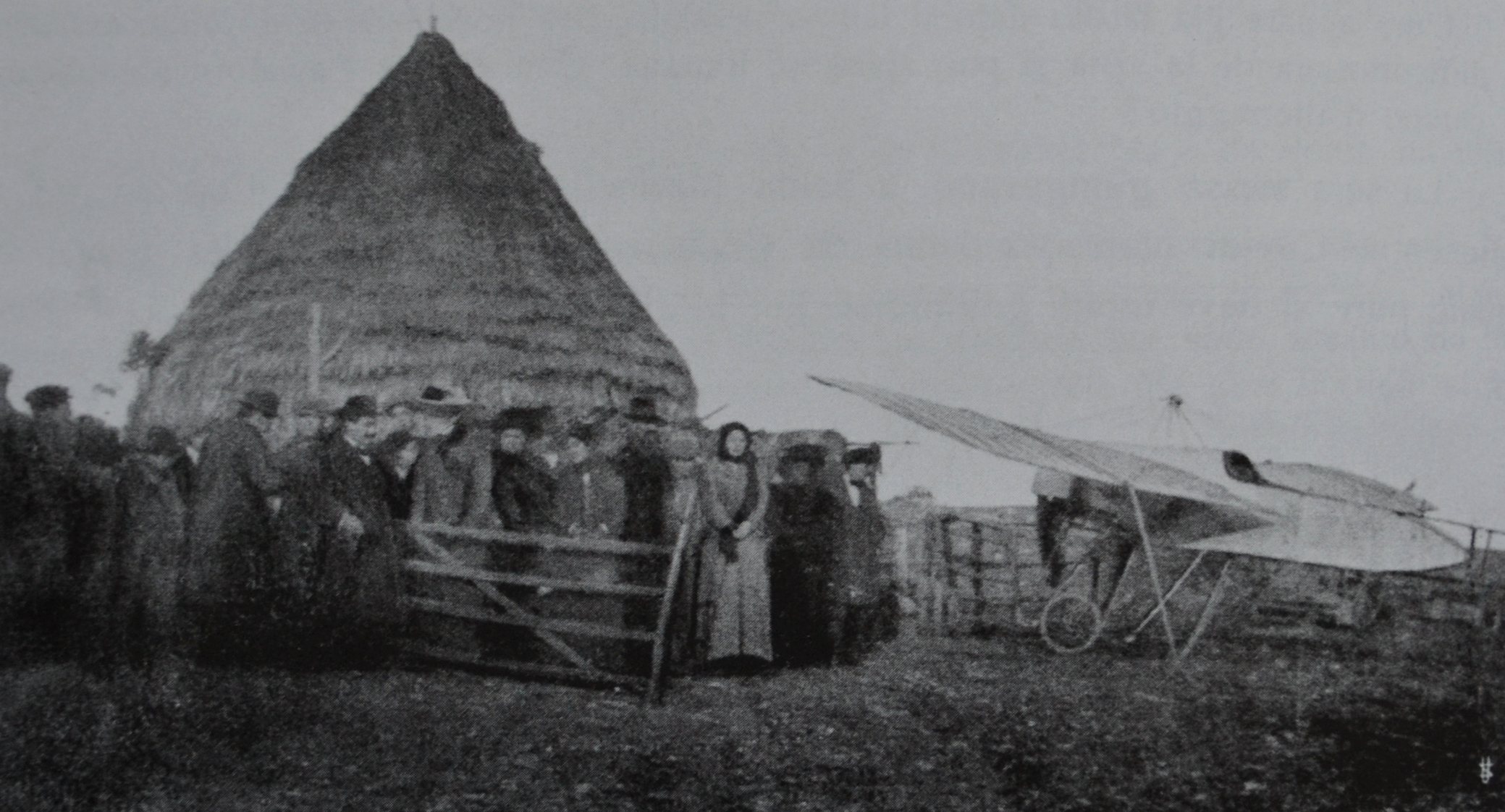 Slavorosoff's Caproni Ca.16 on the ground in Santa Marinella, not far from Rome, Italy, during the Milan-Rome raid, late February – early March 1913.